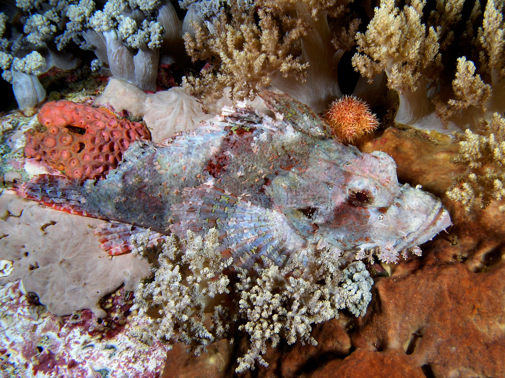 Camouflaged scorpionfish in Komodo National Park